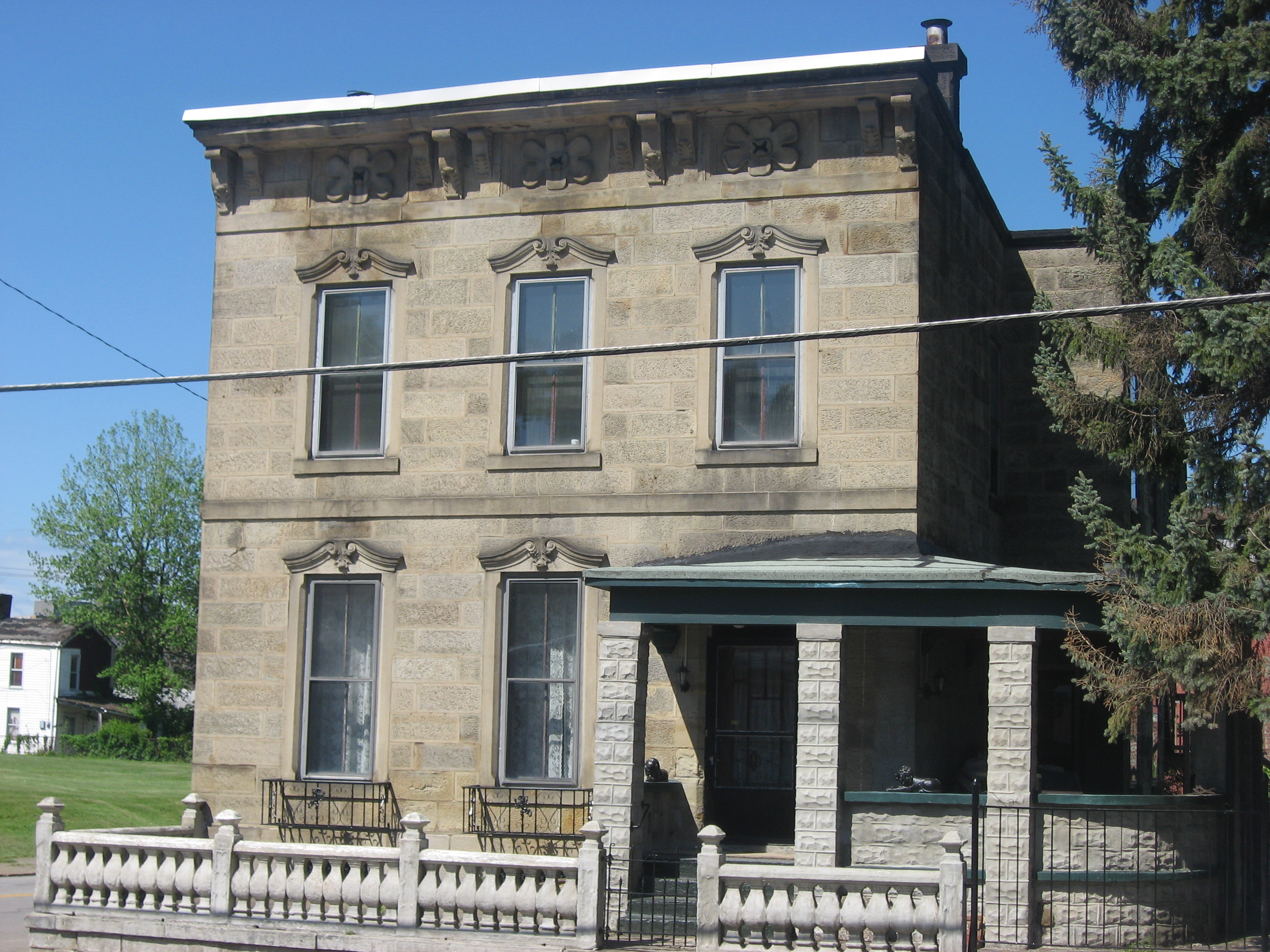 Front of the Lang-Hess House, located at 1625 Wood Street in Wheeling, West Virginia, United States. Built in 1865, it is listed on the National Register of Historic Places.